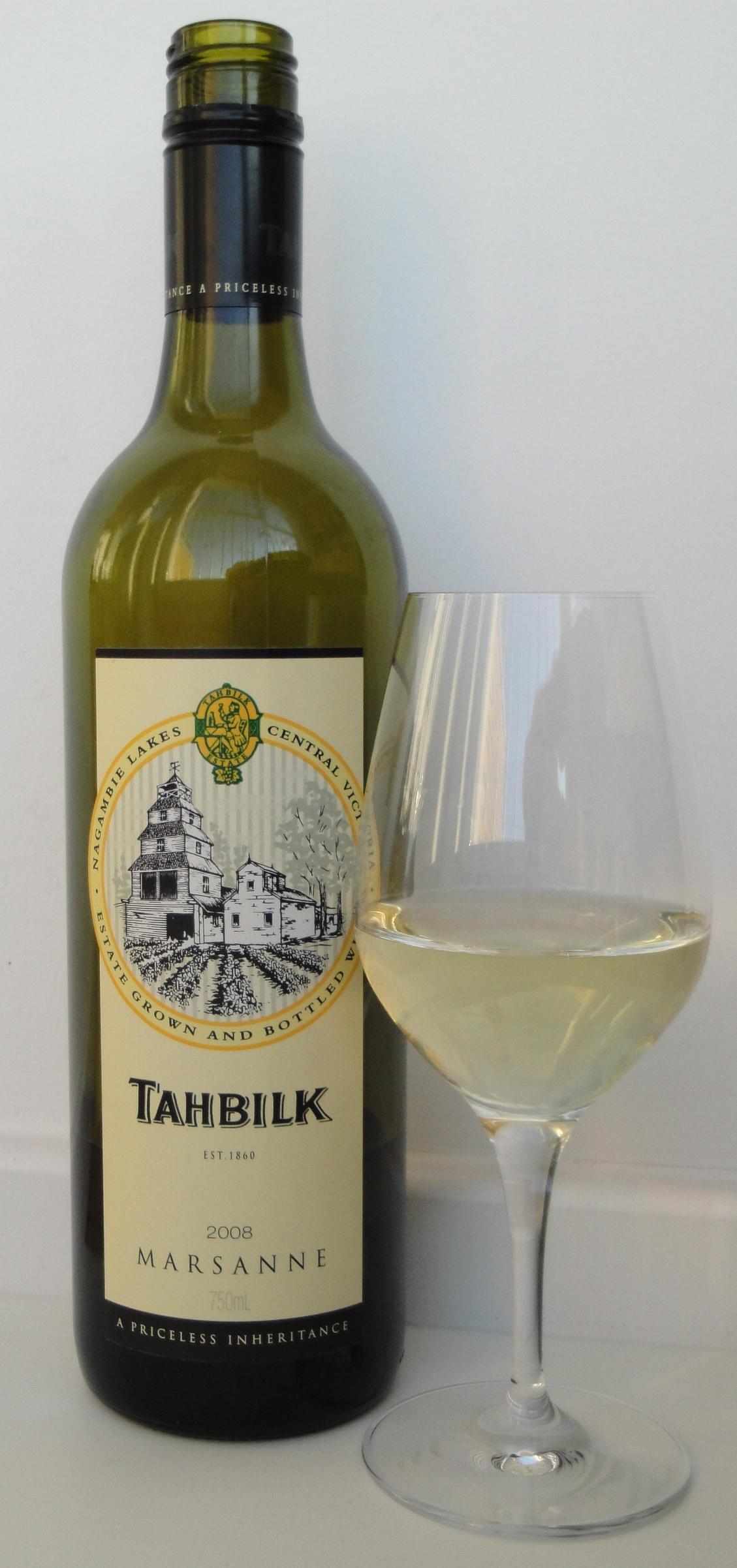 Tahbilk Marsanne 2008, a wine from Nagambie Lakes, Victoria